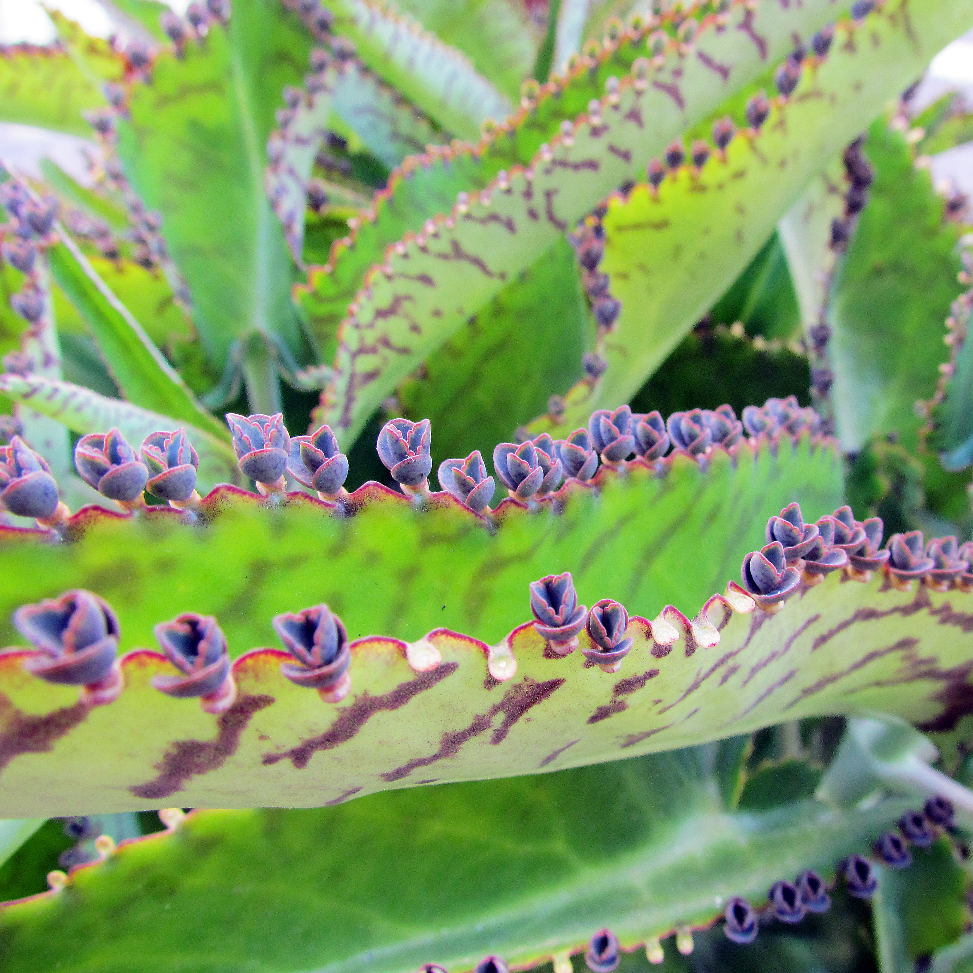 Vivipary in Kalanchoe daigremontiana